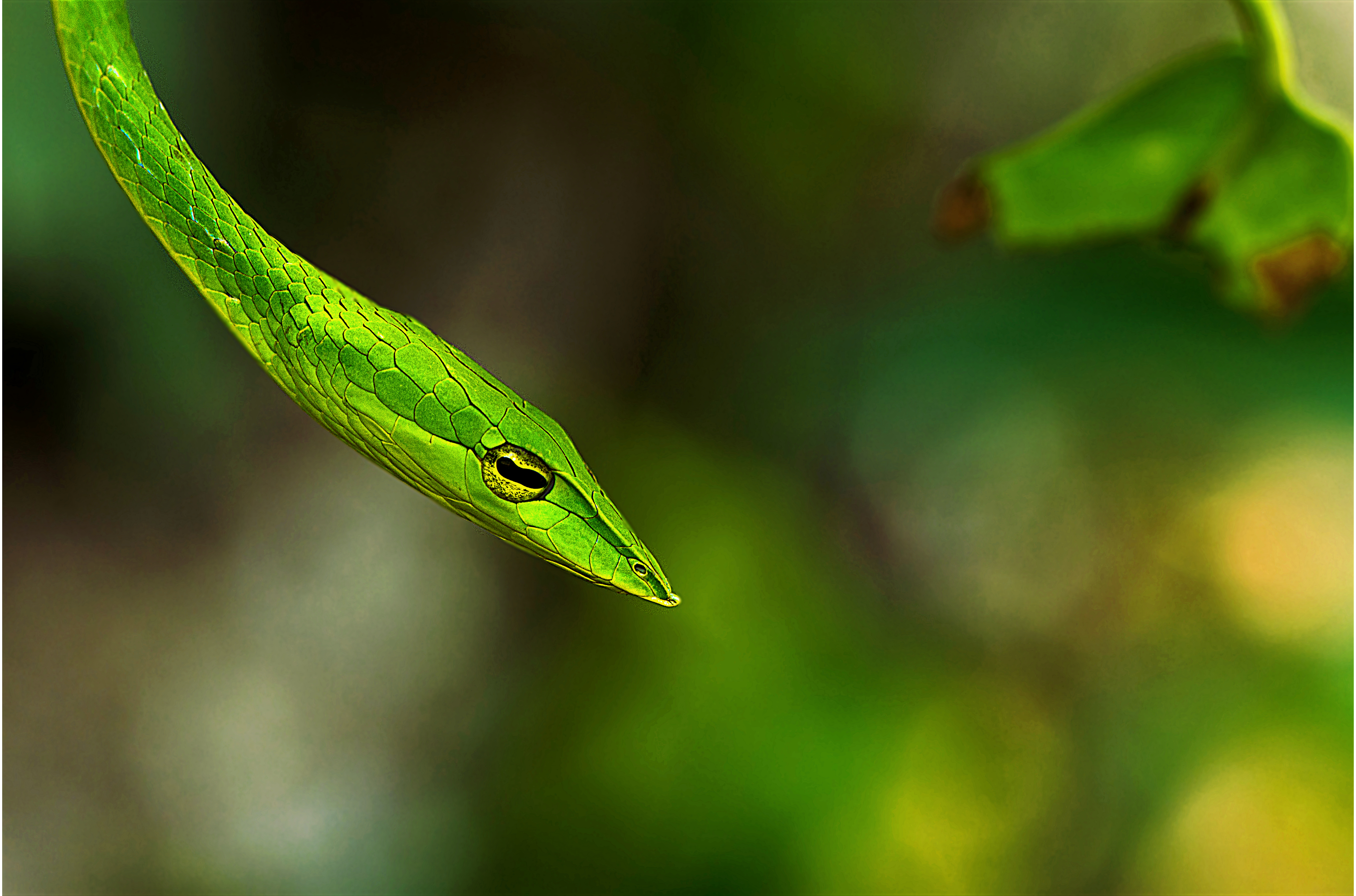 Ahaetulla nasuta, known as Green vine snake recorded from Wayanad , Kerala.